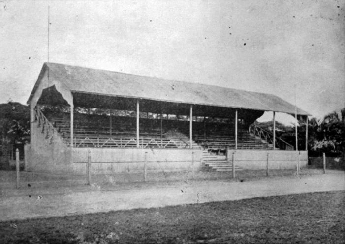 Official grandstand of Ferro Carril Oeste stadium in Caballito.